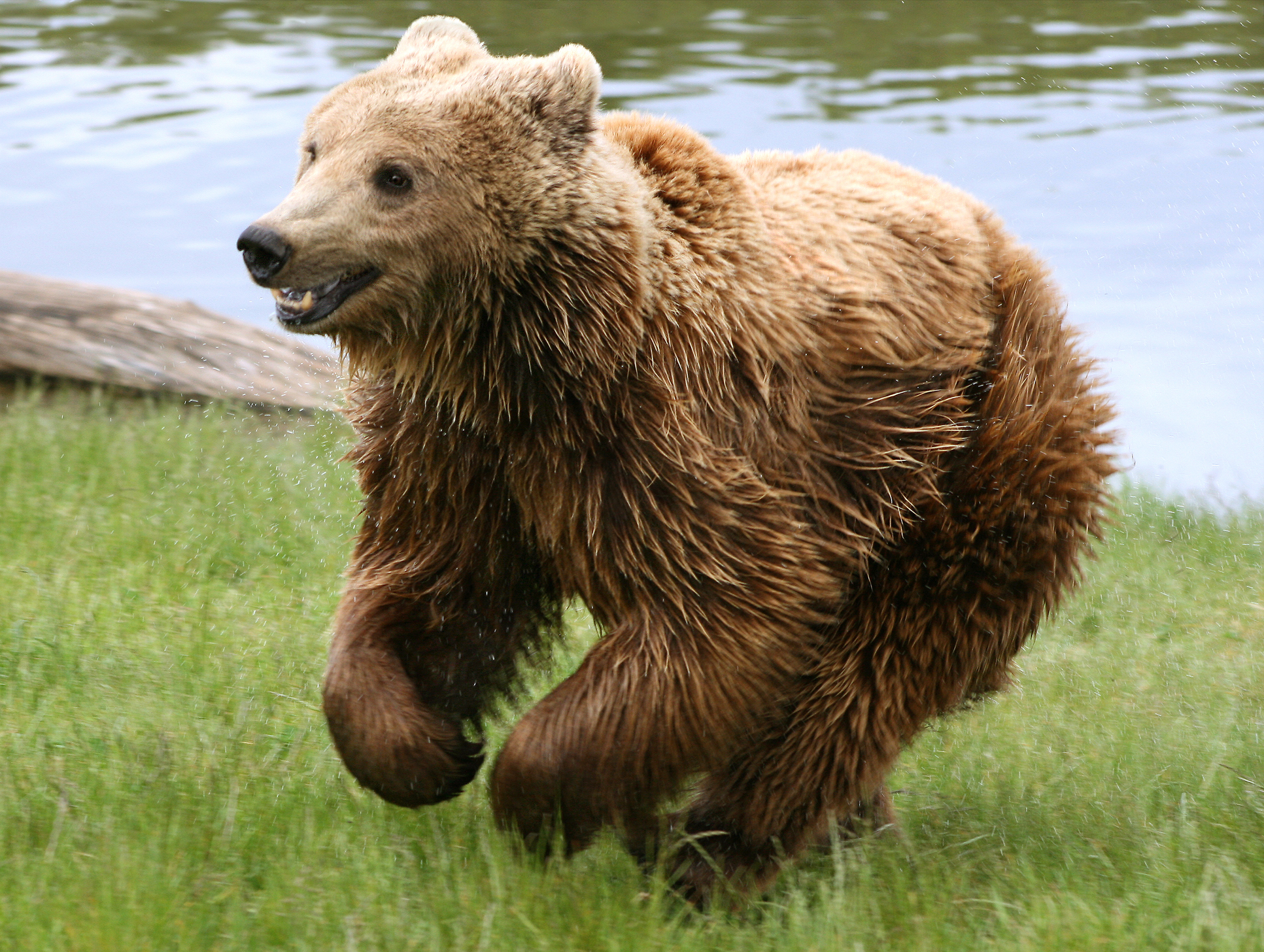 Brown bear (Ursus arctos arctos) running. From Skandinavisk Dyrepark, Denmark.